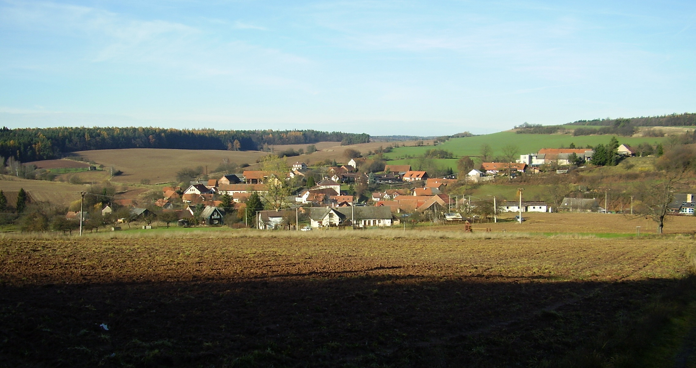 Autumn view of Czech village Oplany